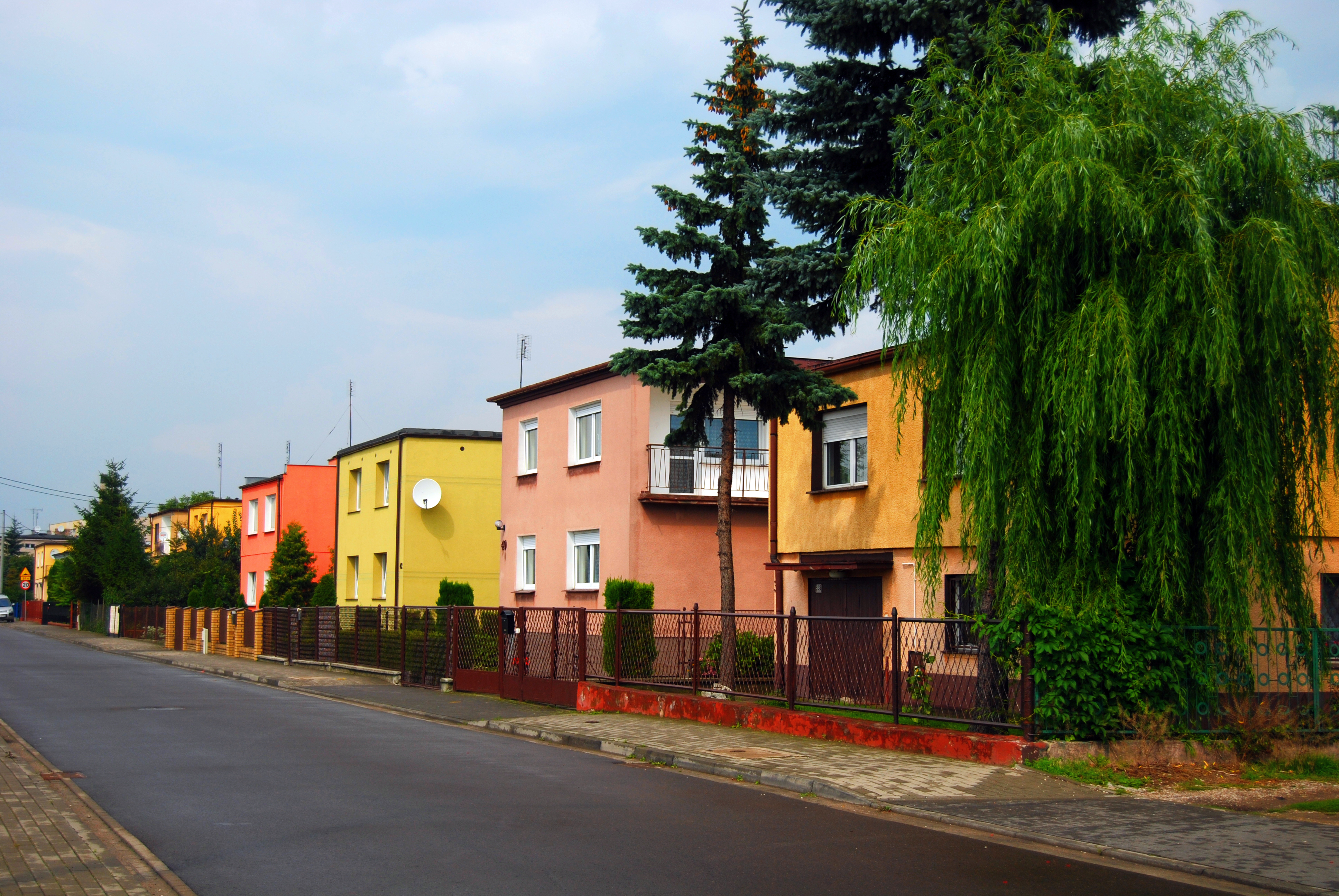 Ignacy Paderewski Street in Gniezno